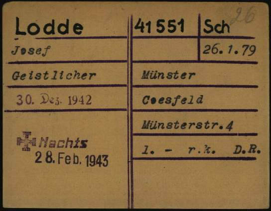 Registration card of Joseph Lodde as a prisoner at Dachau Nazi Concentration Camp. The stamped cross signals the night of his death.